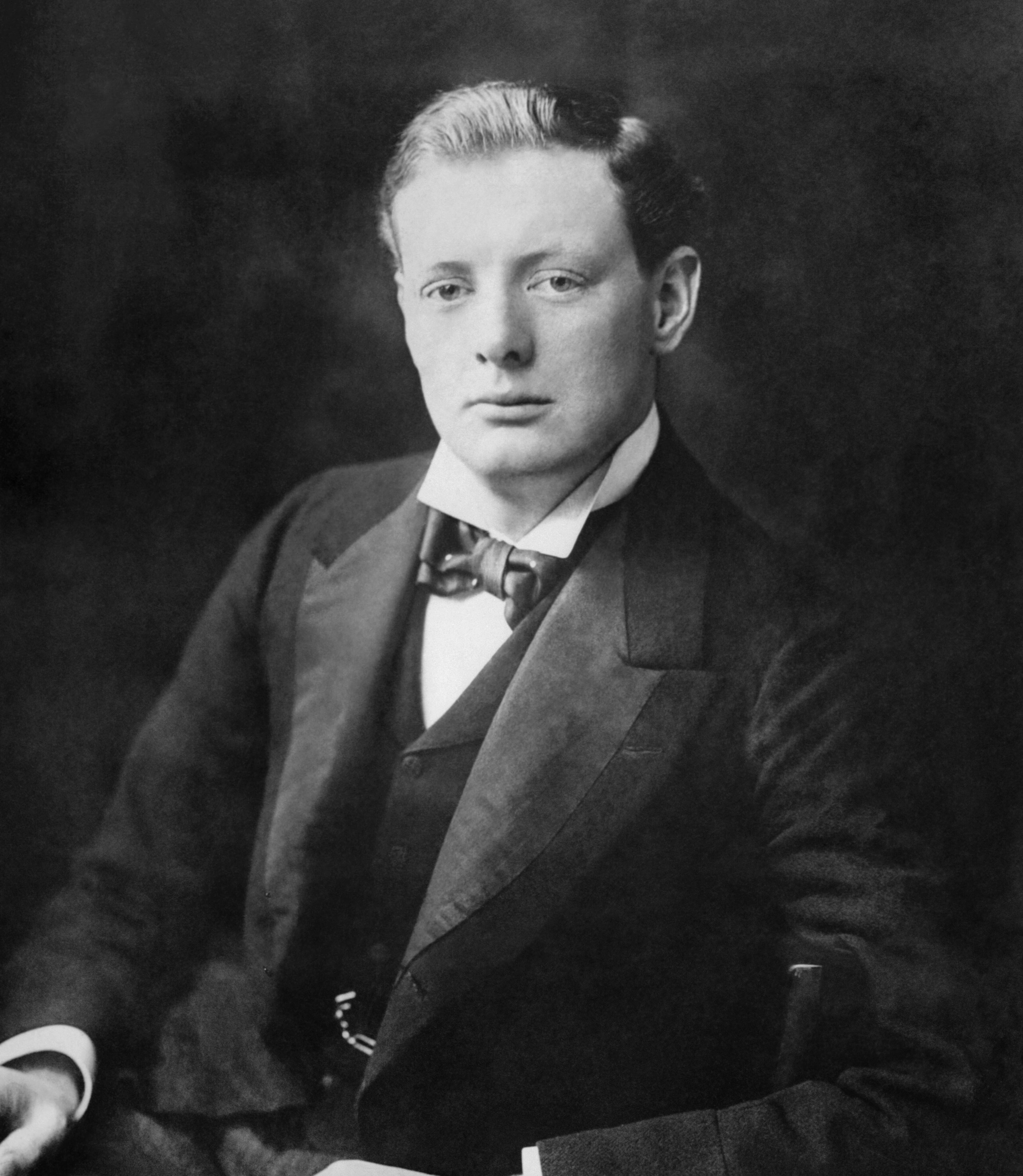 Winston Churchill 1874 - 1965 A half length portrait of Winston Churchill in 1900.